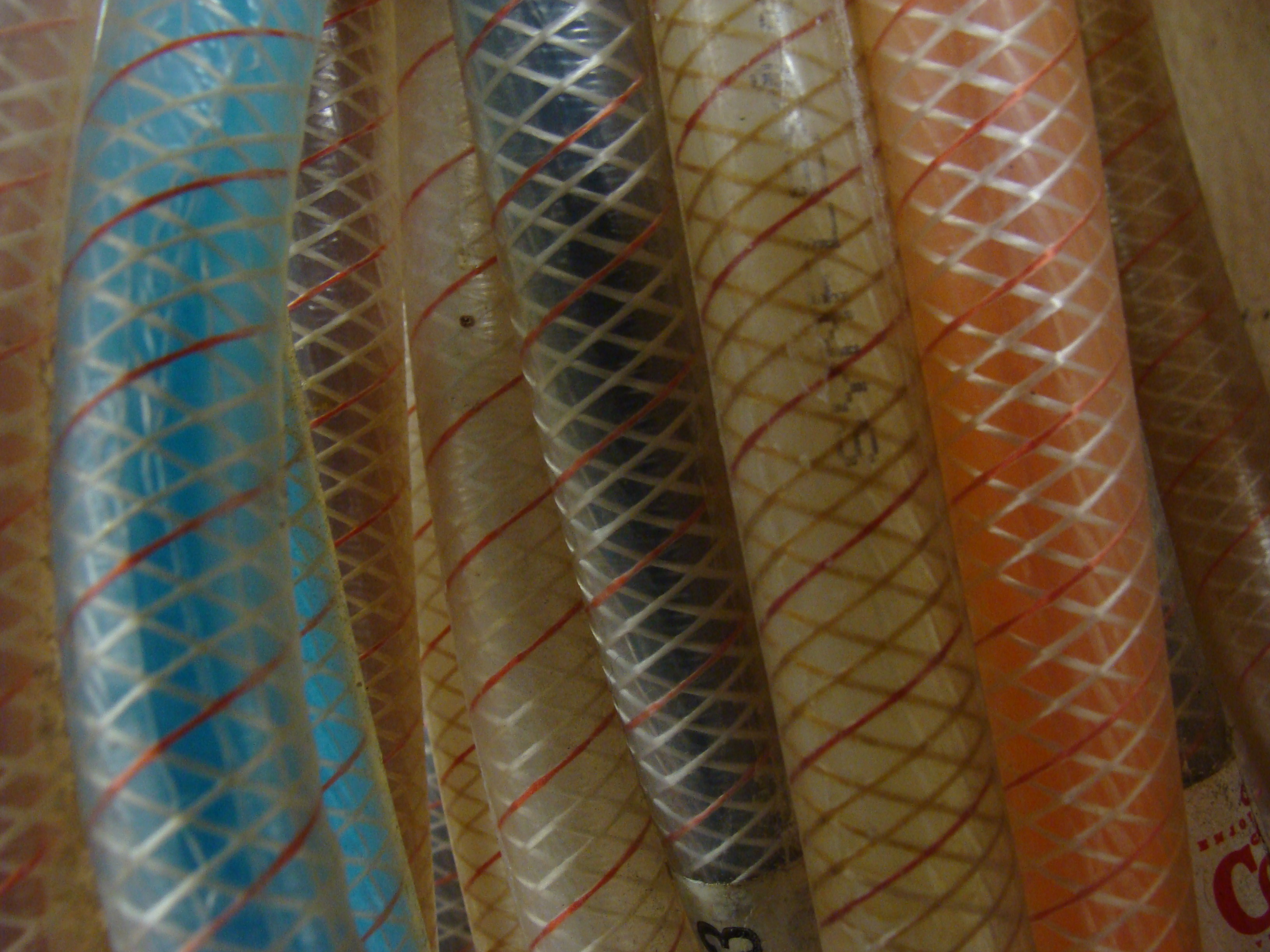 Reinforced Vinyl Tubing